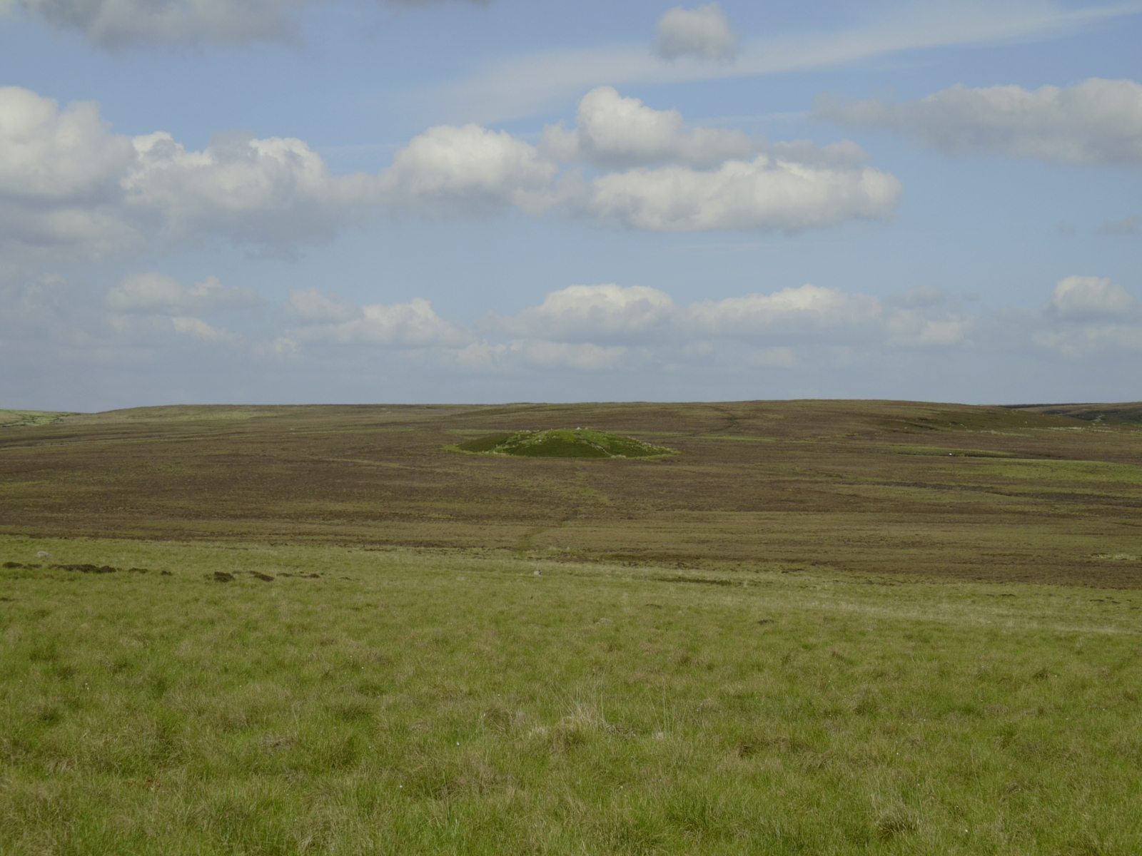 Round Loaf from Hurst Hill, near to White Coppice, Lancashire, Great Britain. On the West Pennine Moors